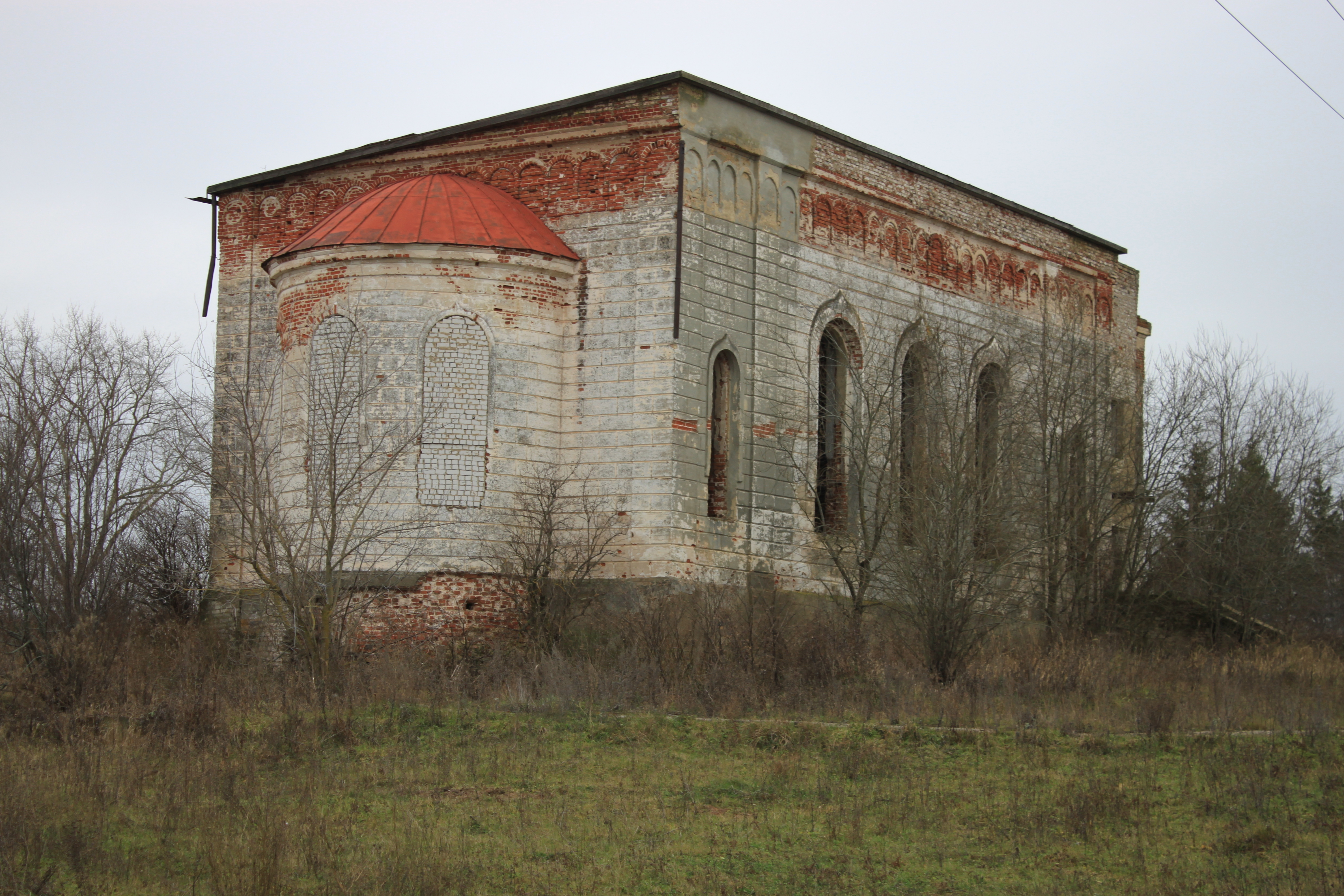 Vladimir Church, 1859